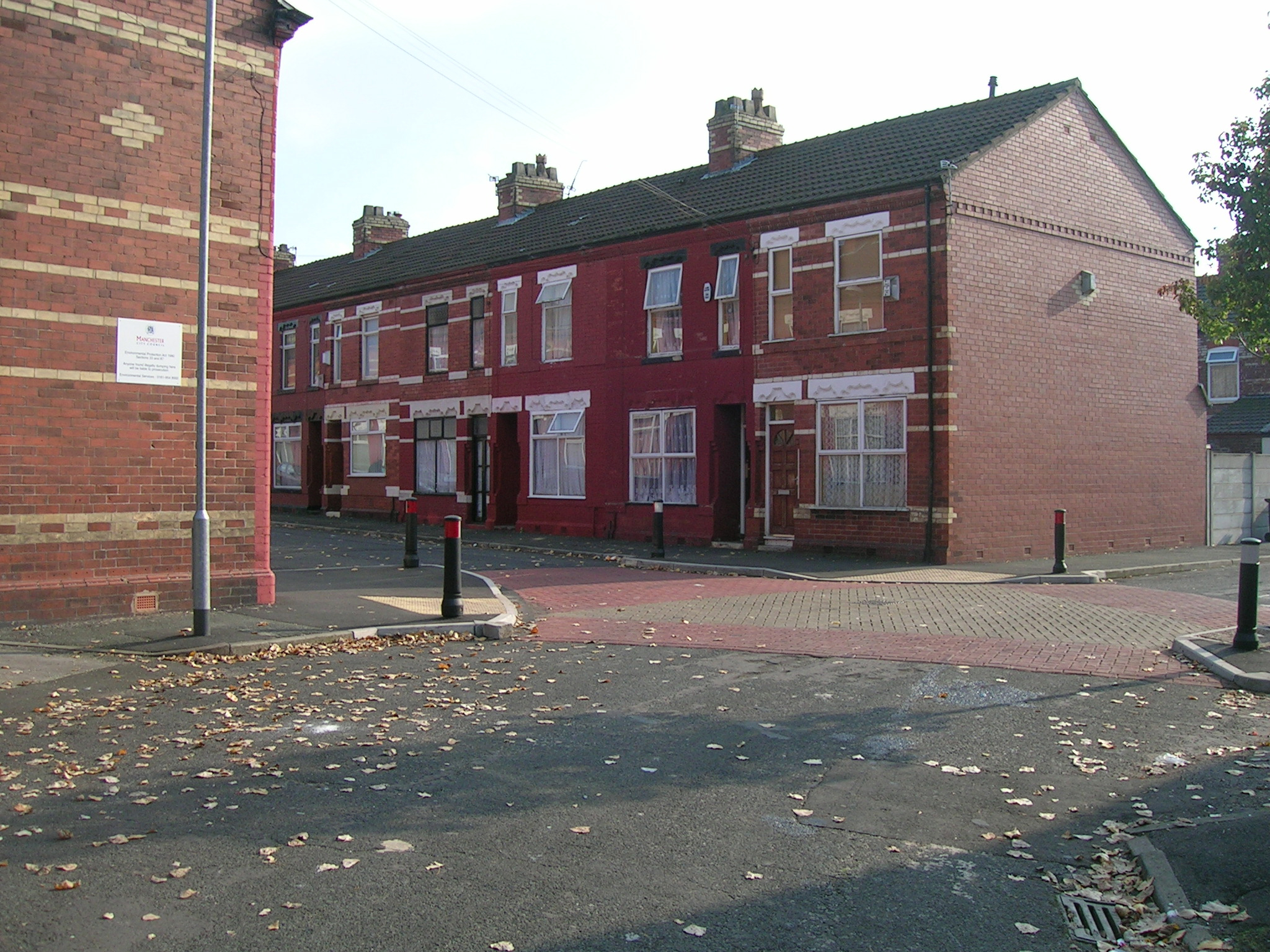 Methuen Street in Longsight, Manchester, England.